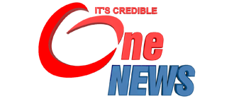 1NEWS RTM Malaysia